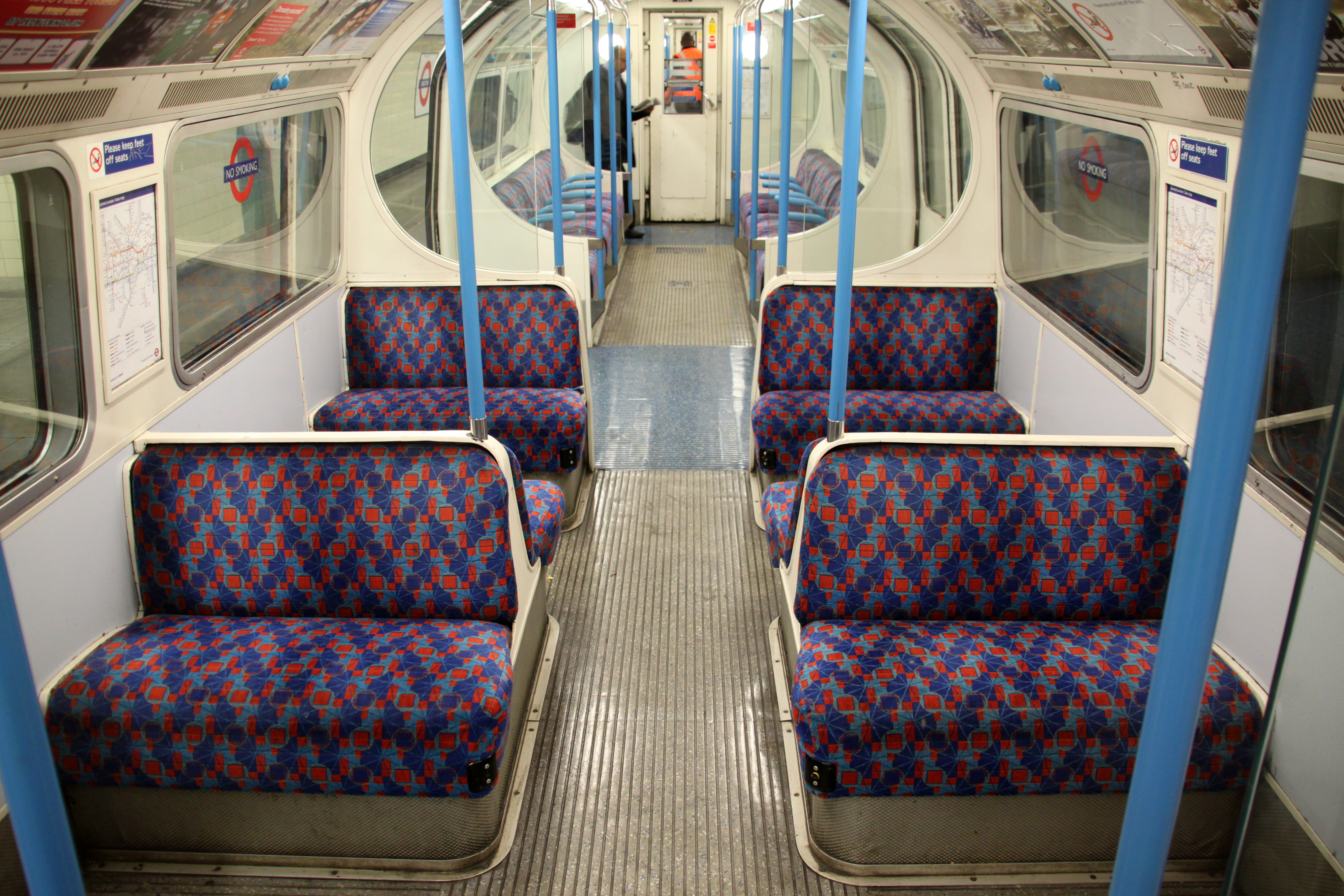 Interior of the 1967 Victoria Line stock.